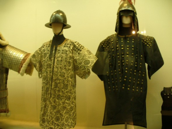 Suits of military clothing at the Seoul War Memorial